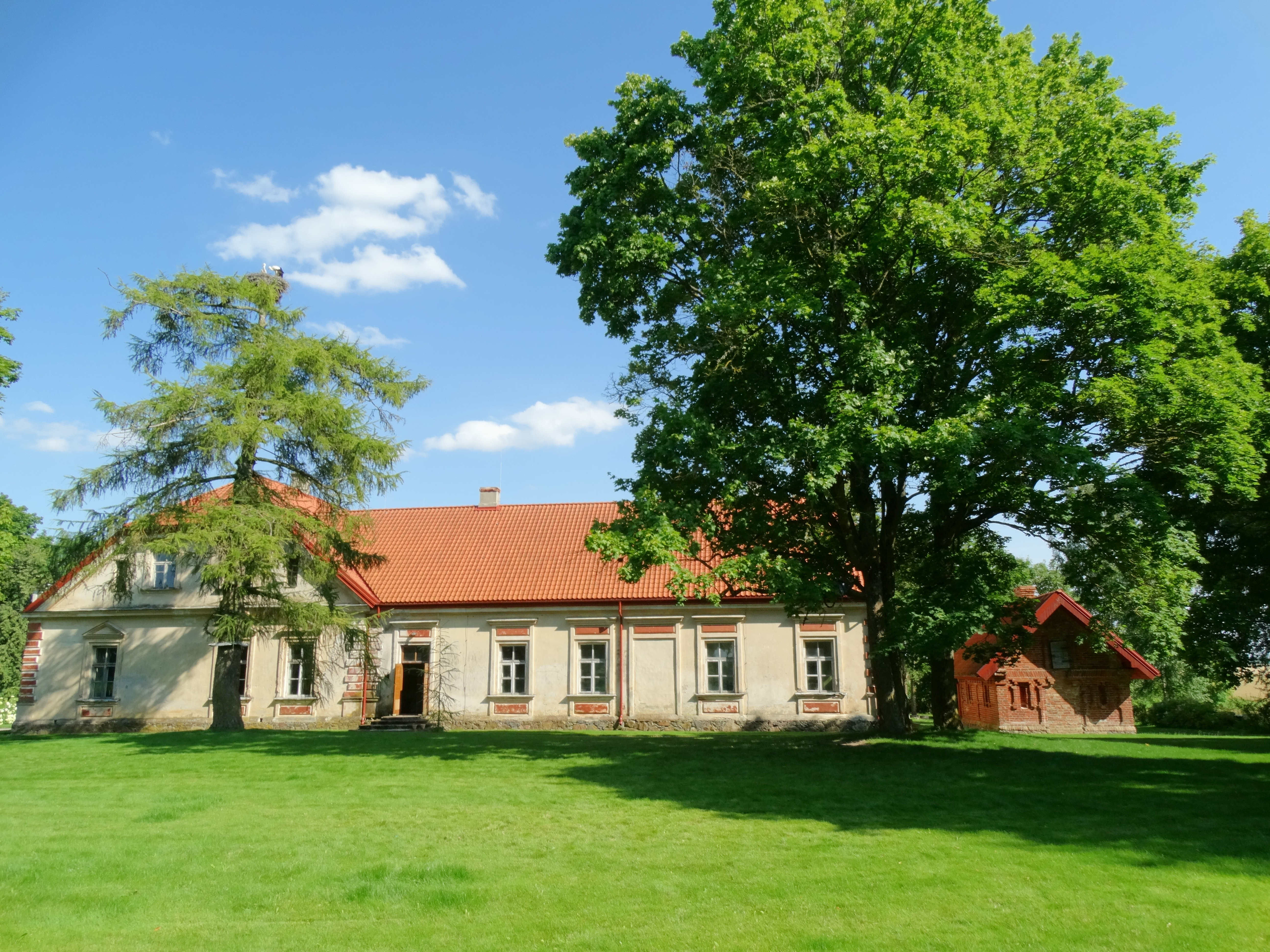 Manor, Jakiškiai, Joniškis District, Lithuania